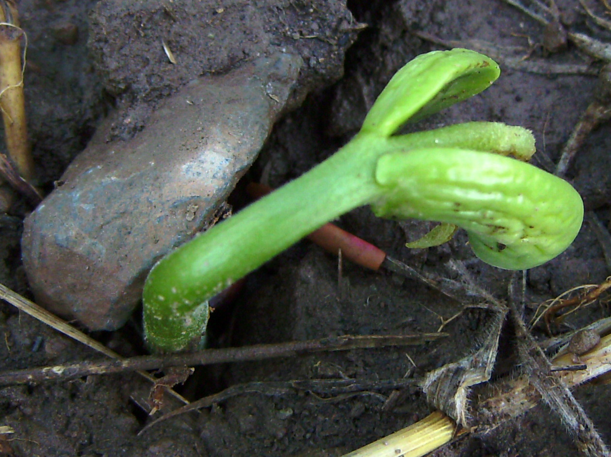 A bean (Phaseolus vulgaris cultivar Contender) germination with de cotyledon out of the ground